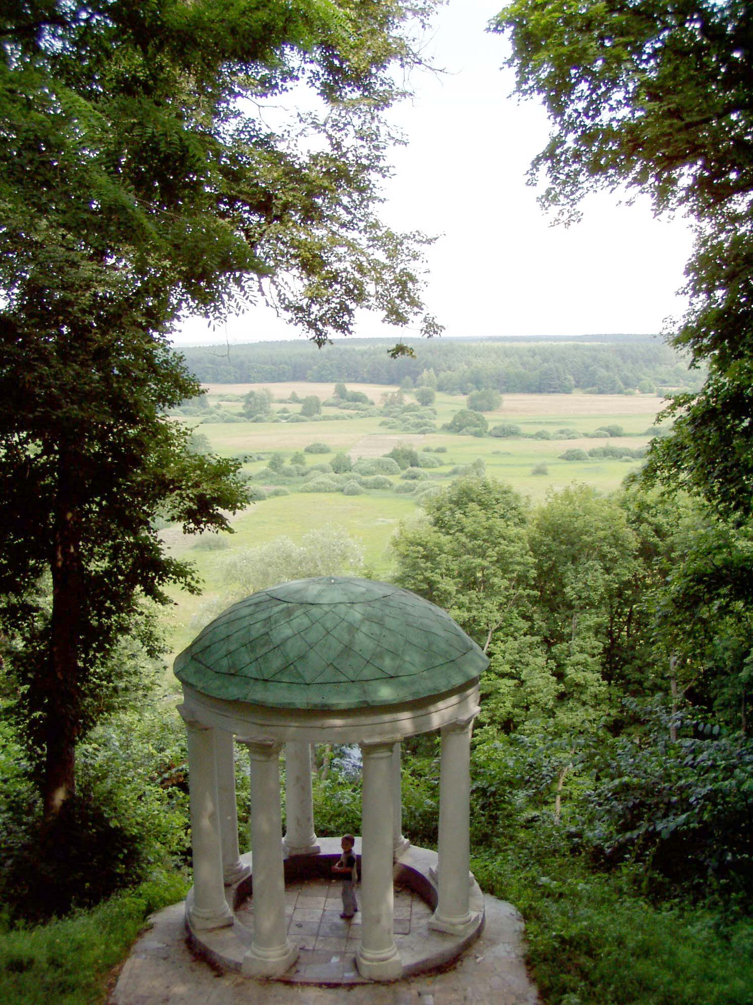 Hlibov arbour in Sedniv